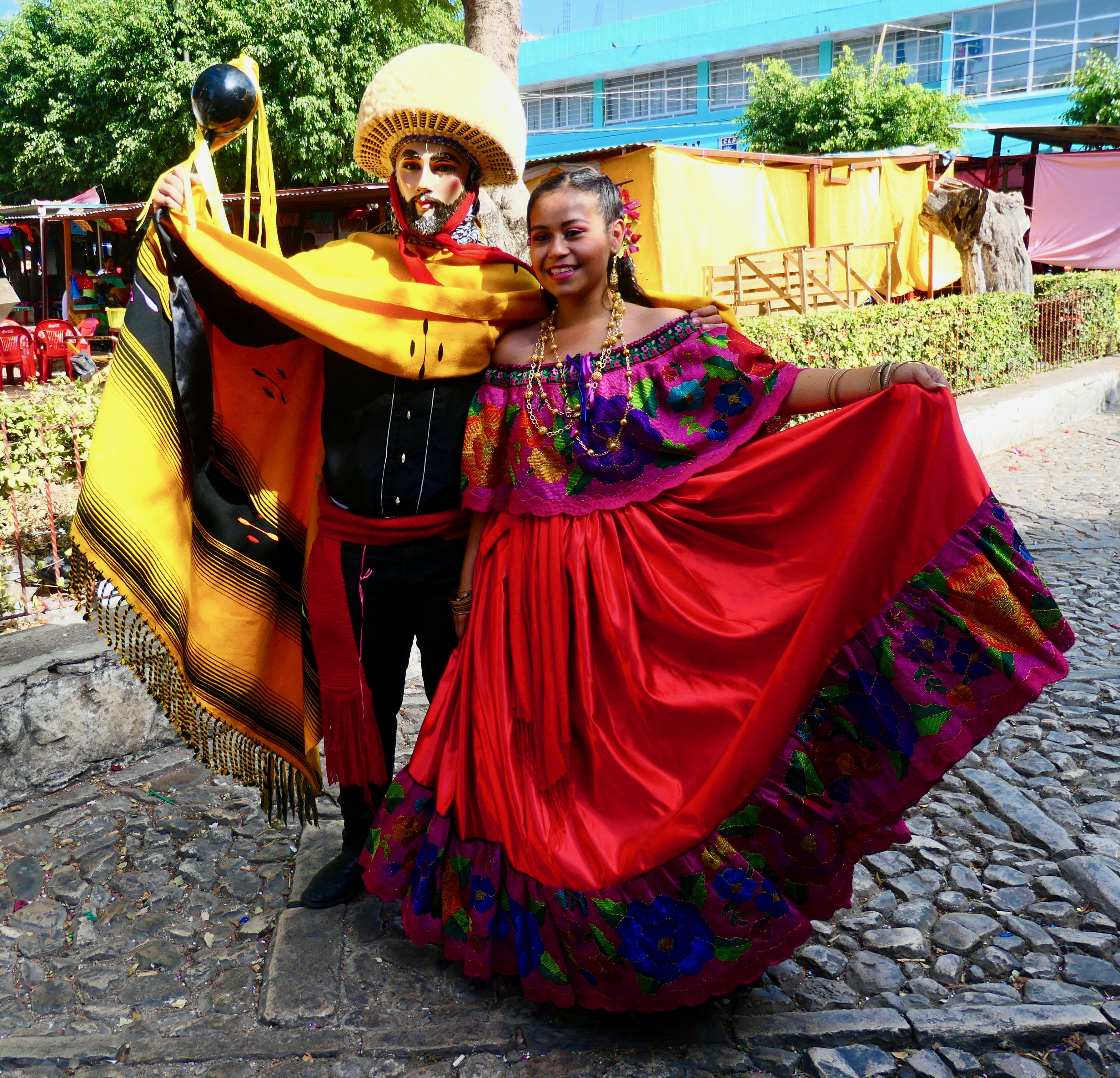 Parachicos 2020, Chiapa de Corzo, Mexico